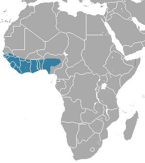 Gambian Mongoose (Mungos gambianus) range